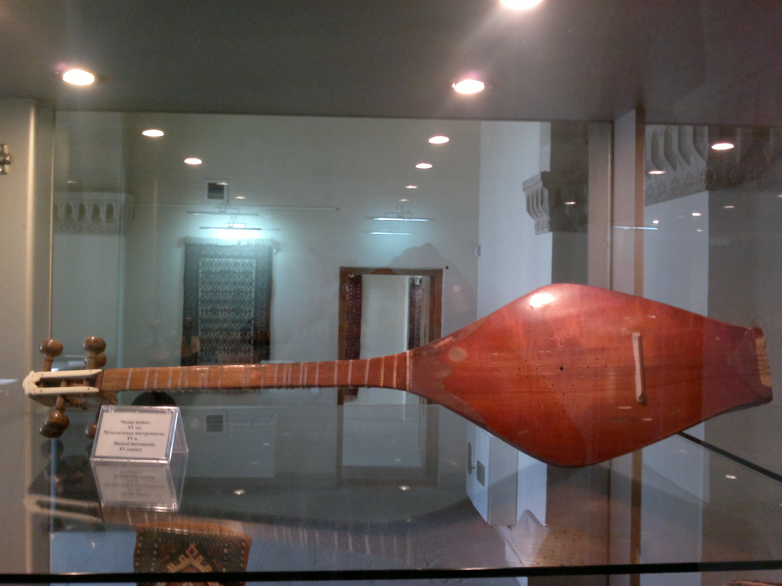 Choghur. 15th century. Palace of Shirvanshahs. Baku, Azerbaijan.